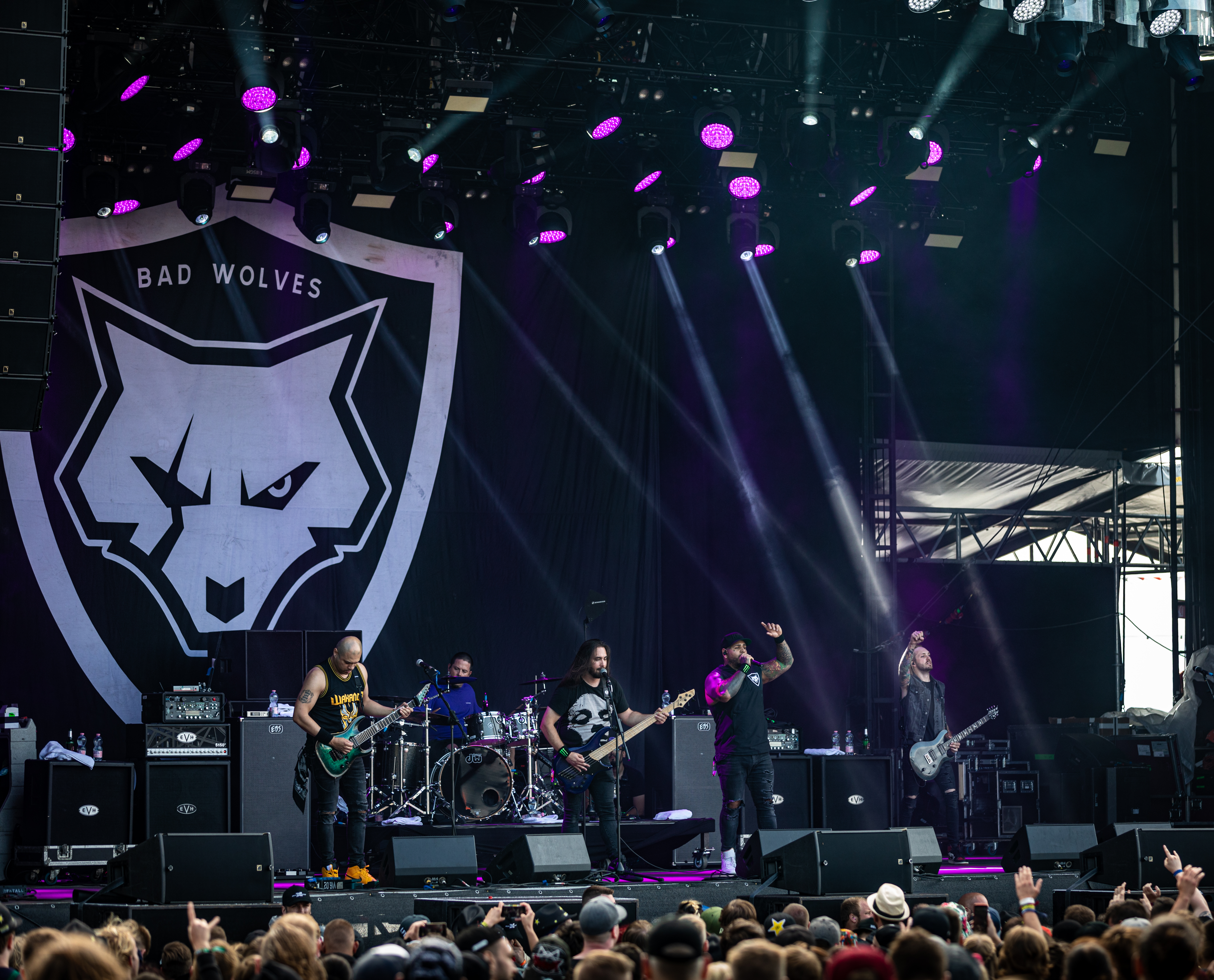 Bad Wolves - Rock am Ring 2019